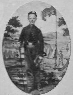 John Cook, bugler in the U.S. Army, received the Medal of Honor for his actions at the Battle of Antietam during the American Civil War.